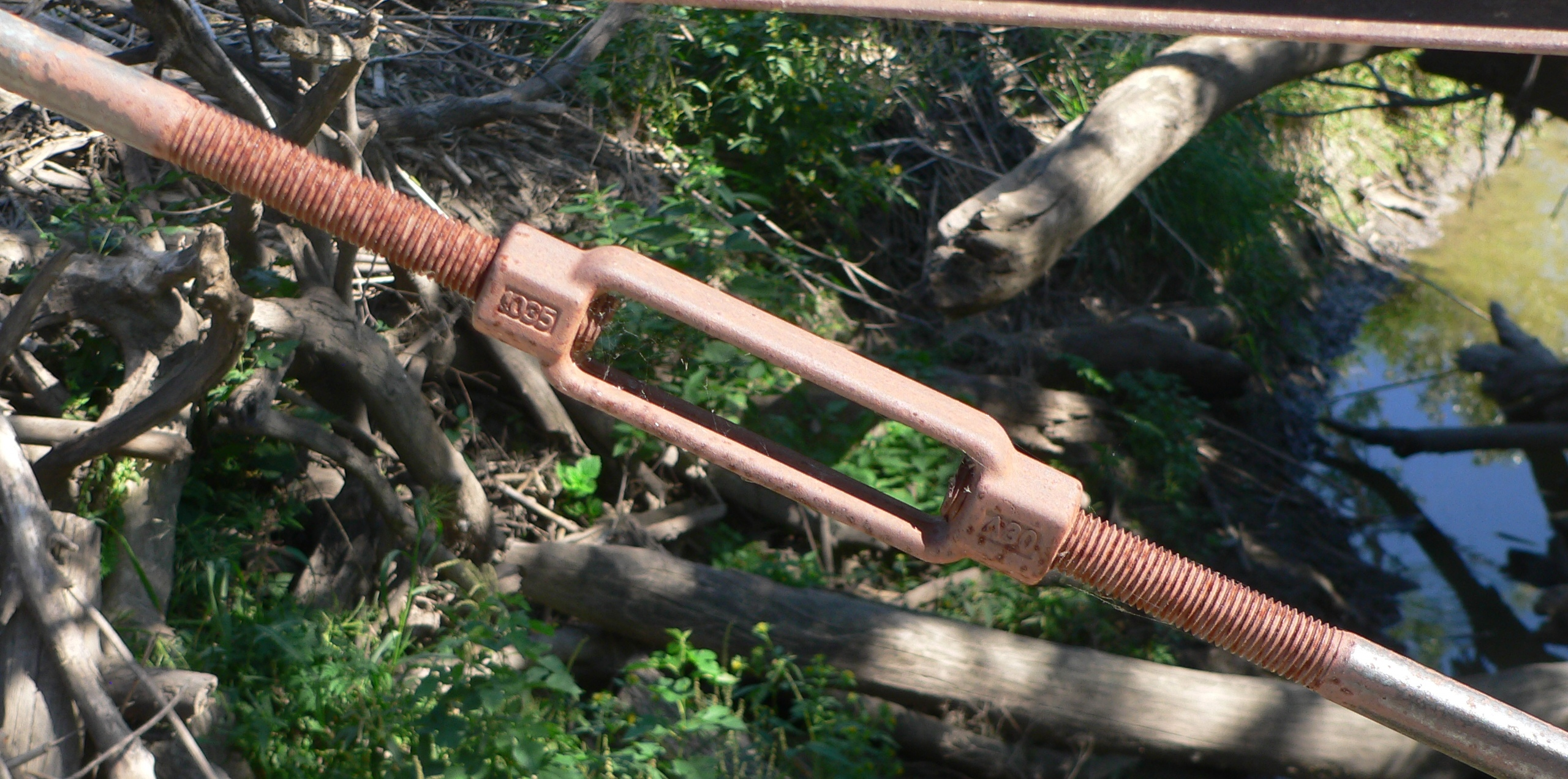 Turnbuckle on Big Blue River Bridge. The bridge is located in Butler County, Nebraska, where county road E crosses the Big Blue east-southeast of Surprise, Nebraska. It was built in 1897, and is listed in the National Register of Historic Places.